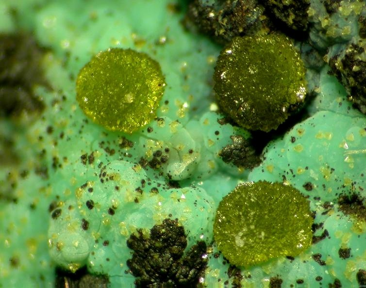 Eulytine Locality: Hechtsberg quarry, Hausach, Black Forest, Baden-Württemberg, Germany Eulytine clusters on Chrysocolla. Field of view 4 mm. Specimen and photo Leon Hupperichs.